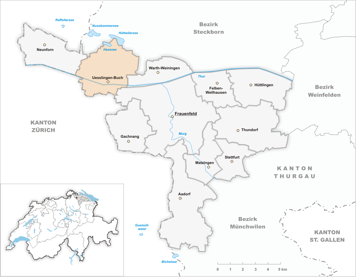 Municipality Uesslingen-Buch